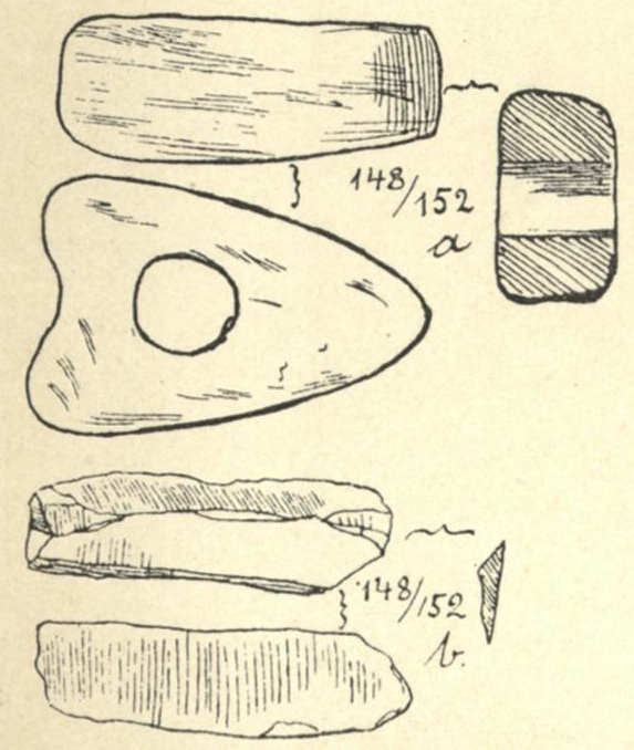 Finds from the megalithic tombs at Ahlum